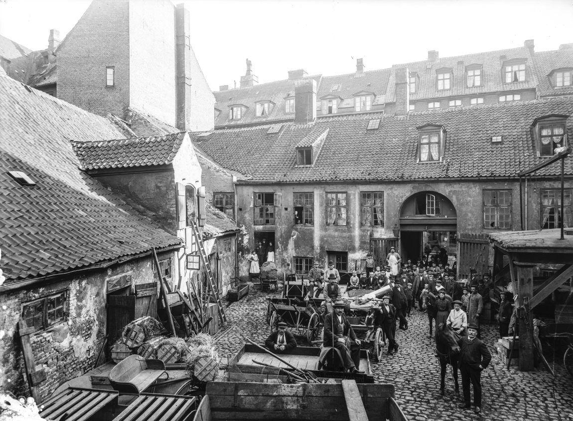 The courtyard located to the rear of Tvermoes Gård at Rosengården 12 in Copenhagen, Denmark. The building was demolished in 1905.